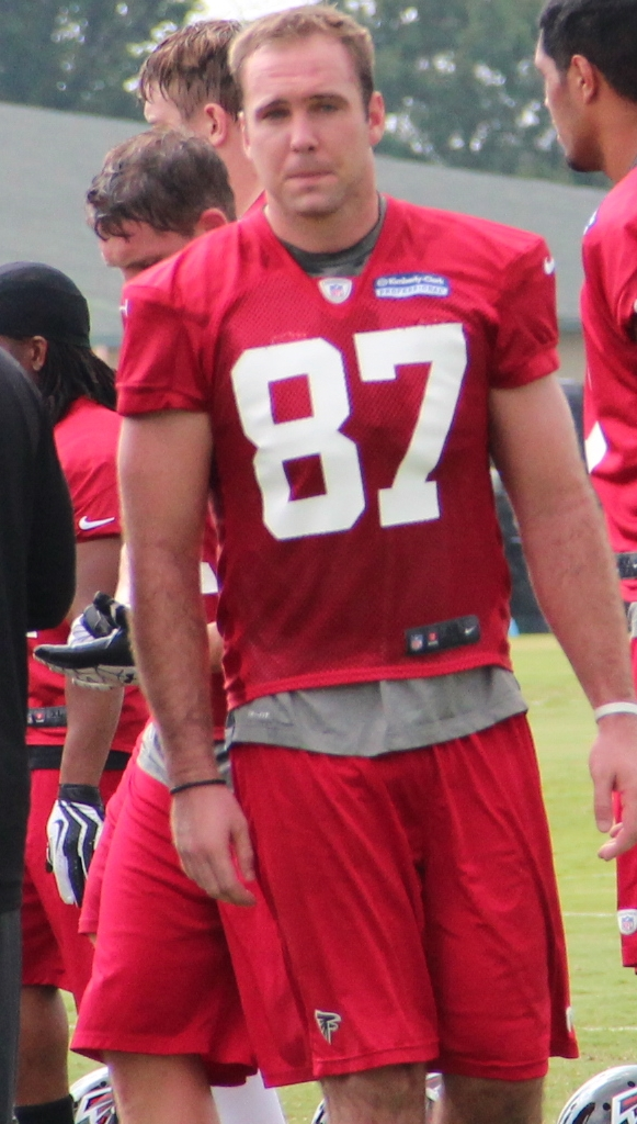 Tommy Gallarda at Falcons training camp, 2013